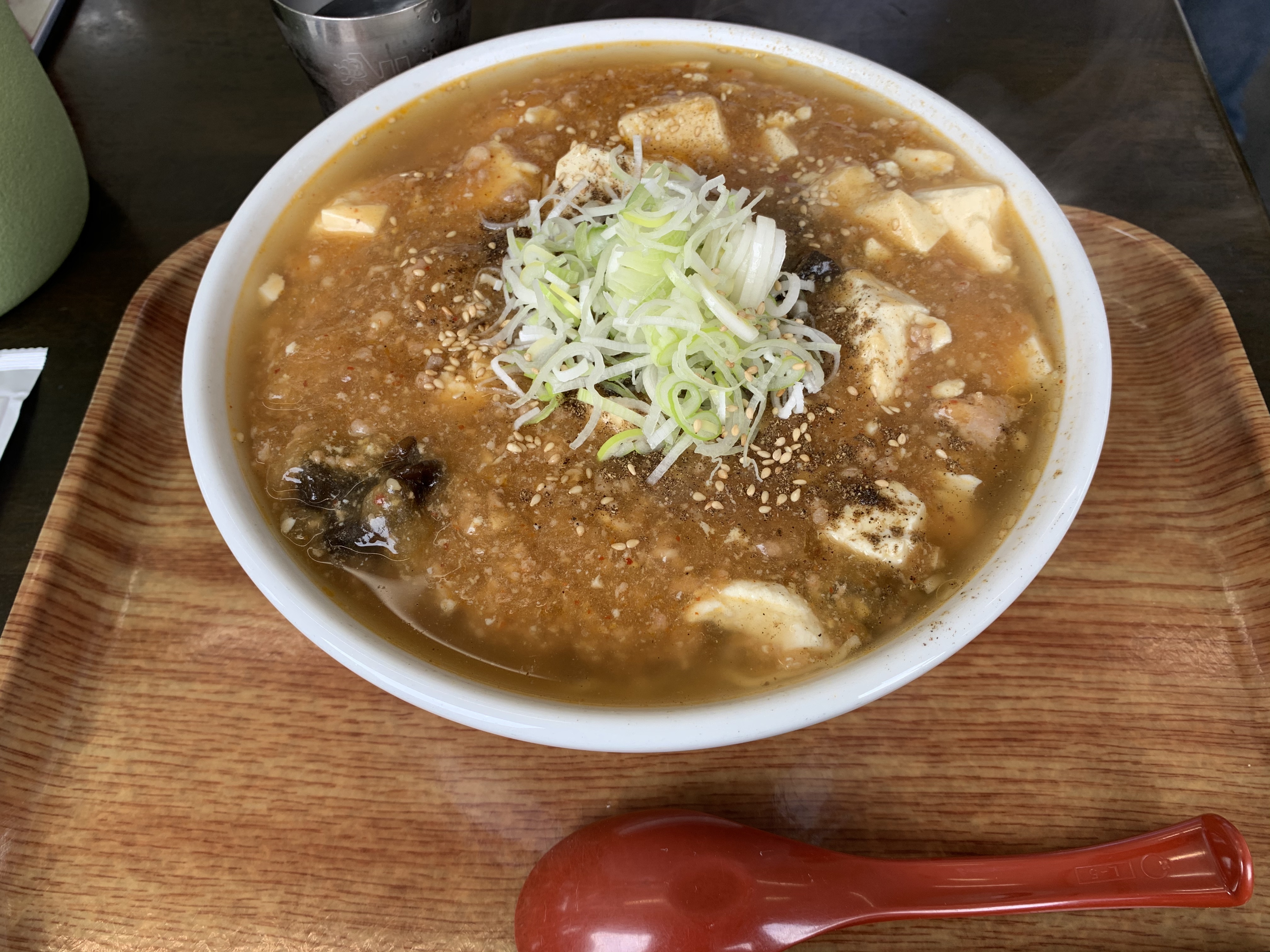 Mapo doufu ramen of ramen shop "Rāmen-Kōbō Marushin" in Kōnan-ku, Niigata city, Niigata, Japan. Took photo in May 2020.